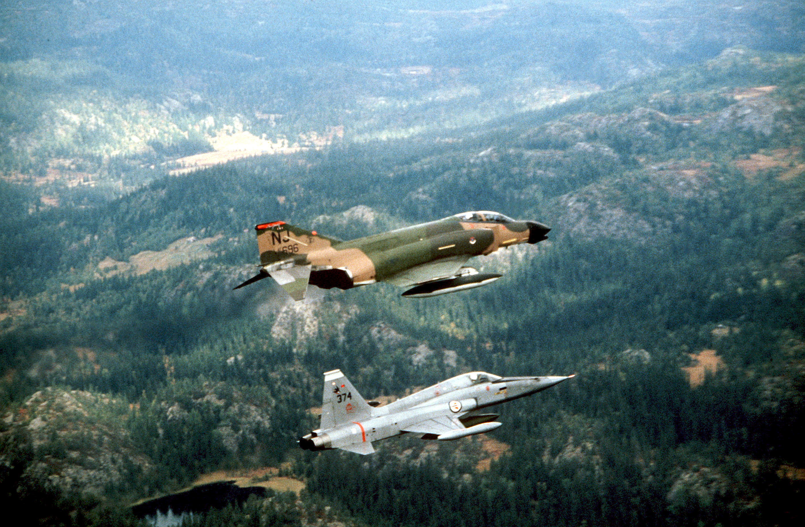 A U.S. Air Force McDonnell Douglas F-4D Phantom II aircraft of the New Jersey Air National Guard flying in close formation with a Royal Norwegian Air Force Northrop F-5A "Freedom Fighter" aircraft during exercise Coronet Rawhide on 1 September 1982.